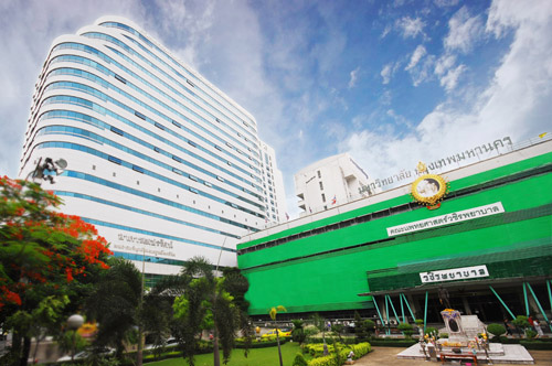 Photo of Vajira Hospital from the main entrance. Photo taken by Natt Munsakul; medical student of the Faculty of Medicine Vajira Hospital (BM19)